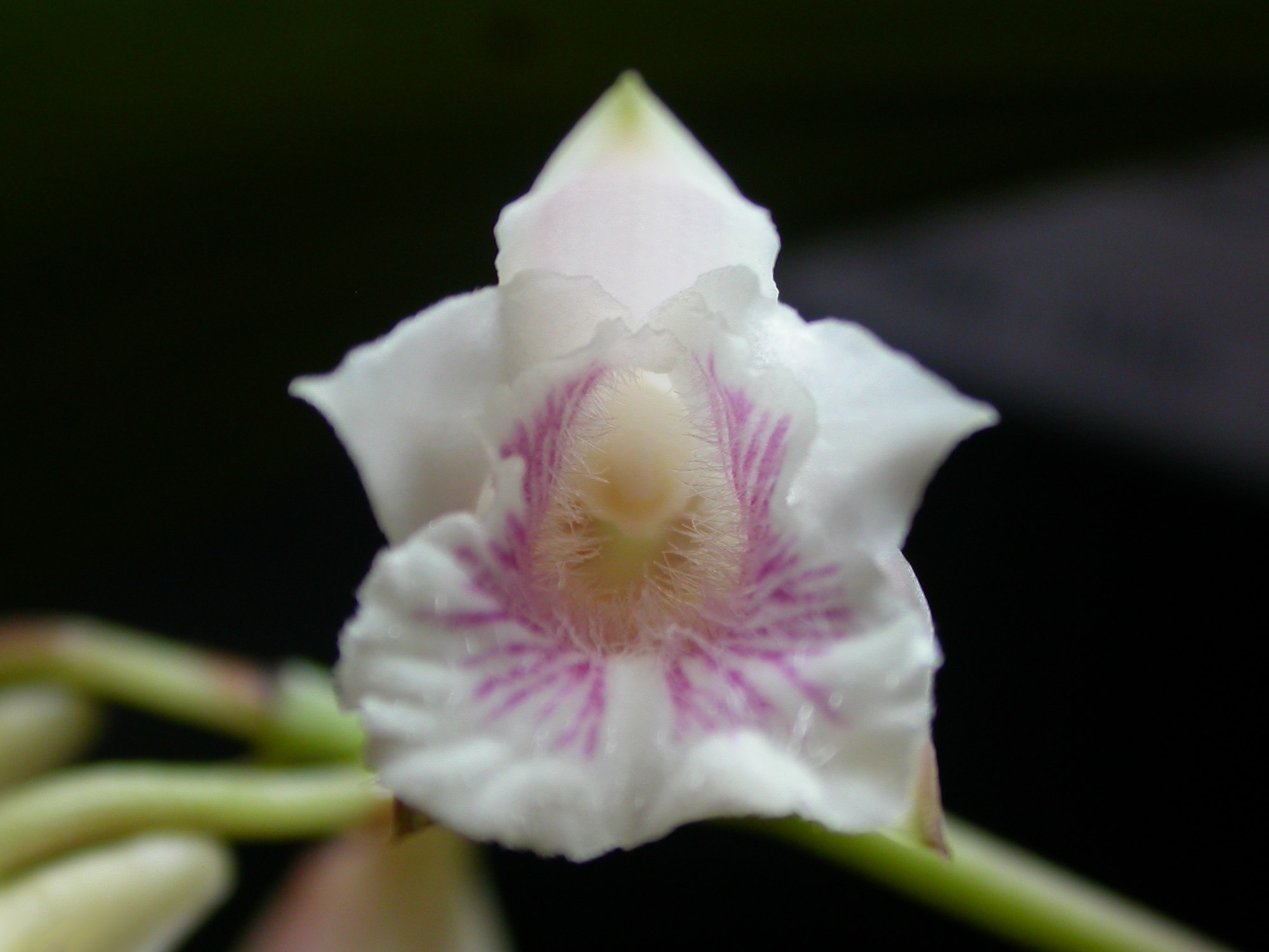 Bifrenaria leucorrhoda